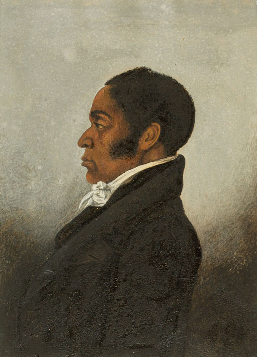 Watercolor of abolitionist James Forten (1766-1842) believed to have been painted during his lifetime. The image comes from The Historical Society of Pennsylvania